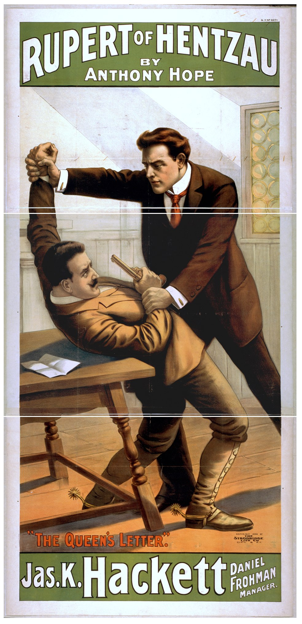 Title: Rupert of Hentzau by Anthony Hope. Abstract/medium: 1 print : color lithograph ; sheet 213 x 102 cm. (poster format)